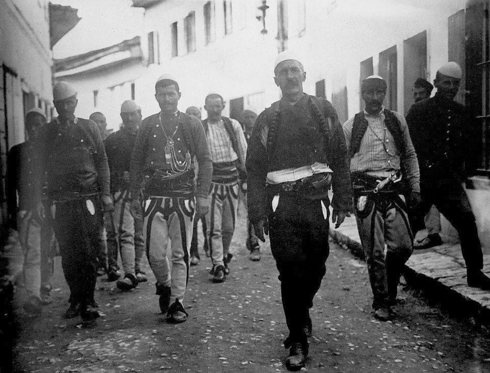 Isa Boletini in Valona 1912.